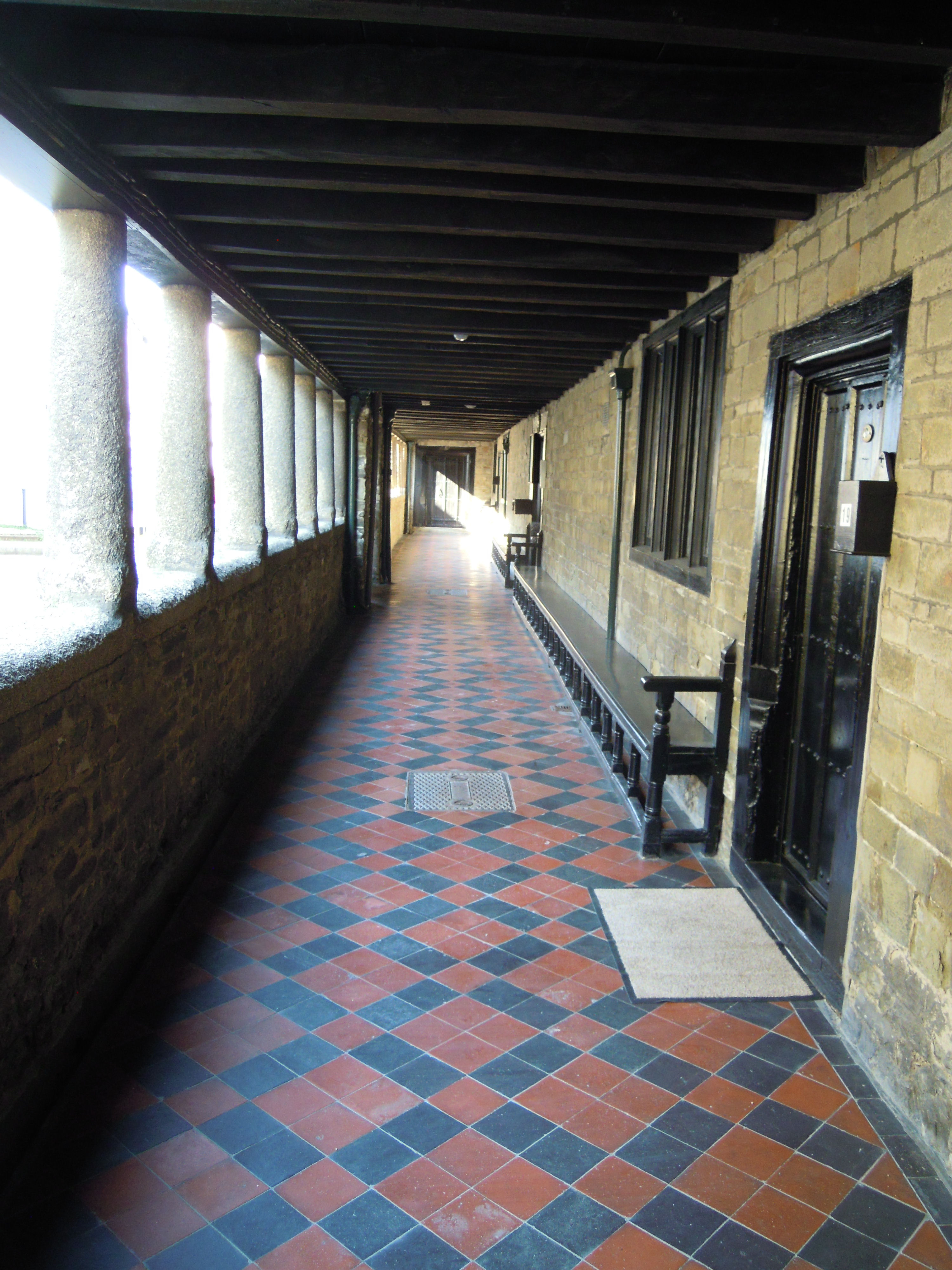 Open air corridor at Penrose's Almshouses in Barnstaple in Devon